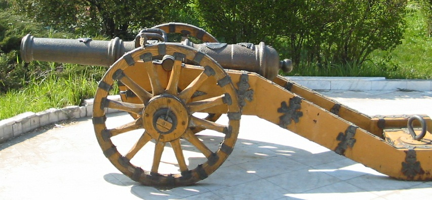 A small cast-iron cannon on a carriage picture by Bogdan Giusca: a cannon from some monument of the cannoniers in Bucharest